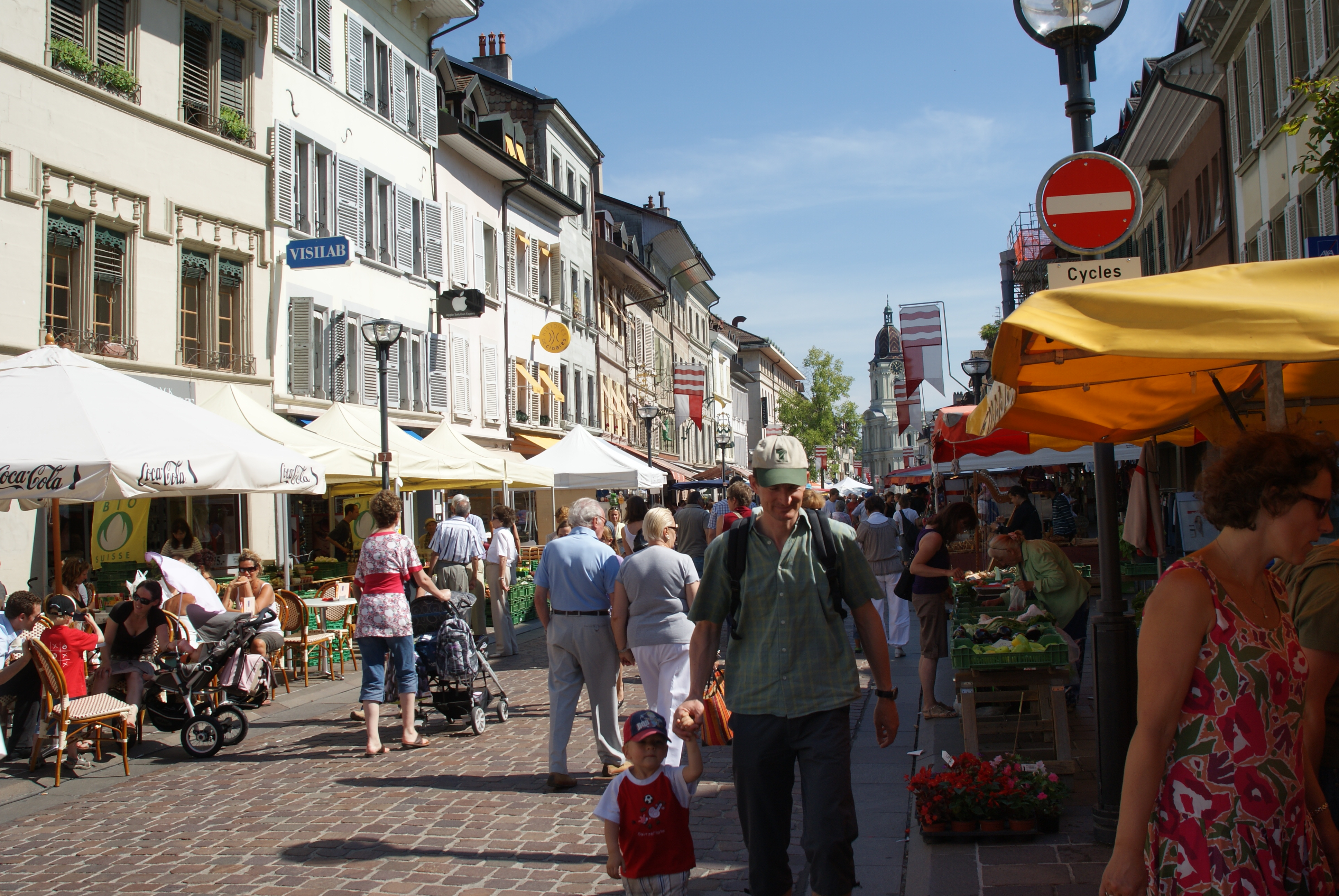 Morges, Vaud, Switzerland